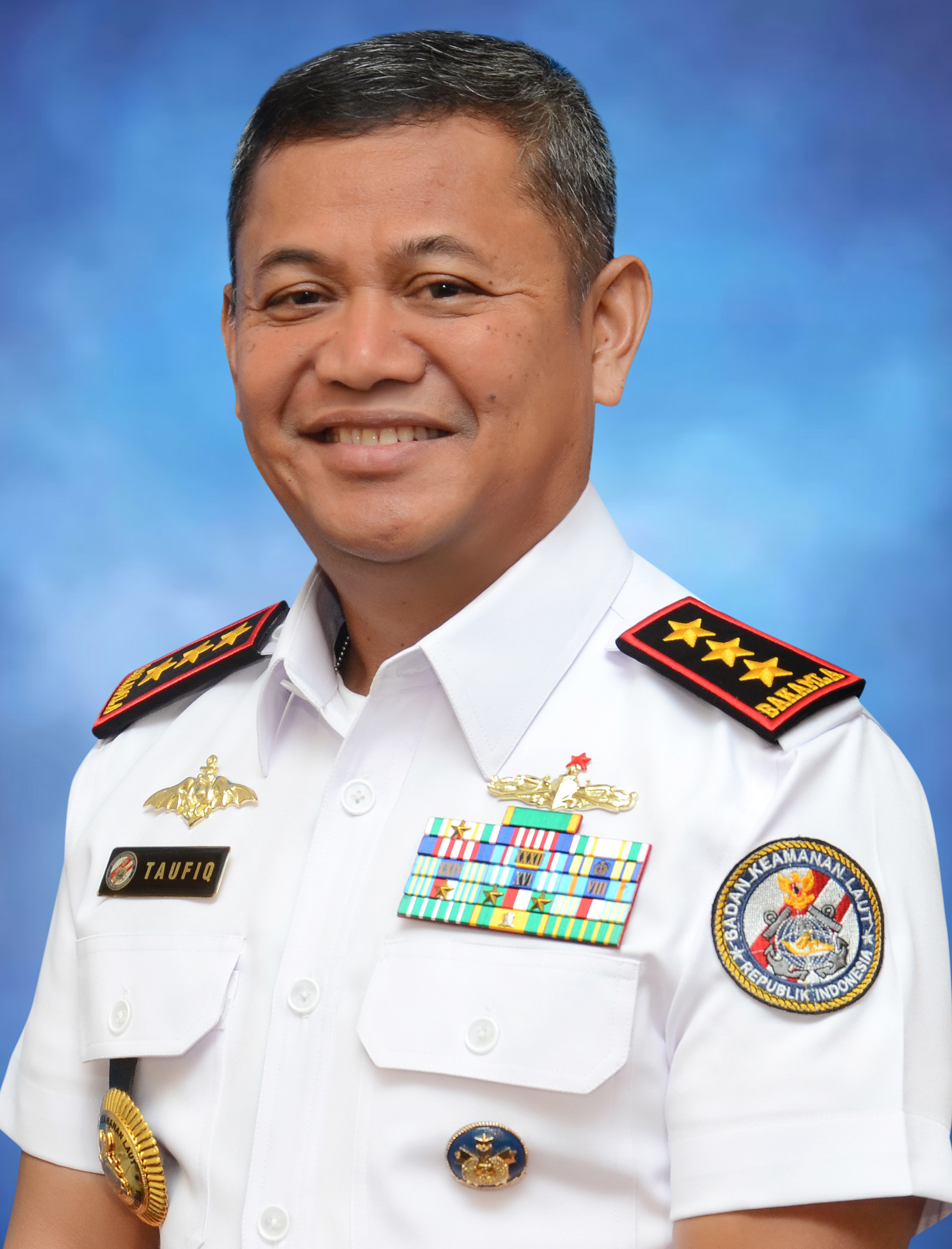 Vice admiral TNI Achmad Taufiqoerrochman as Chief of Indonesian Maritime Security Agency